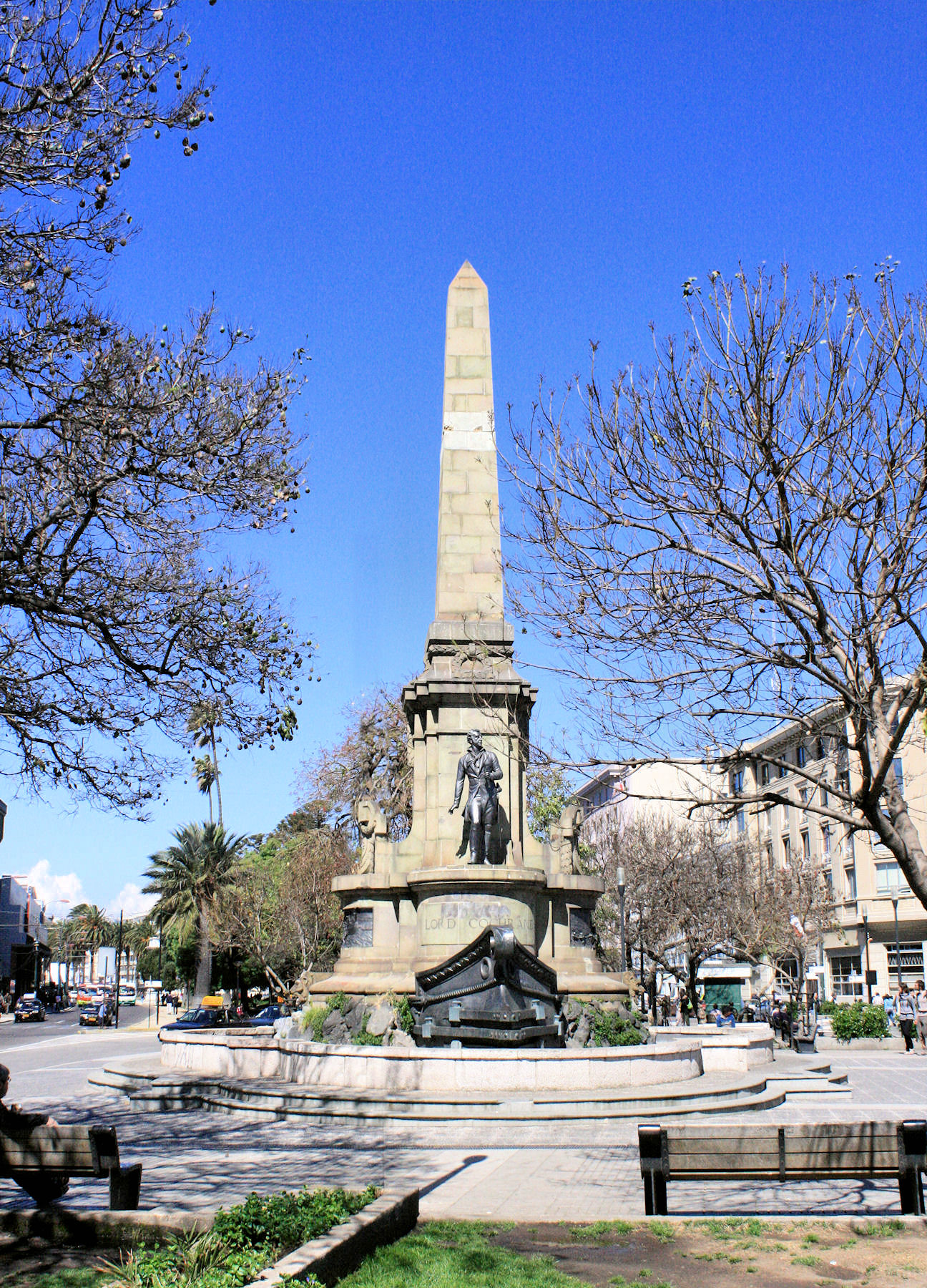 The memorial to Lord Cochrane in Valparaiso